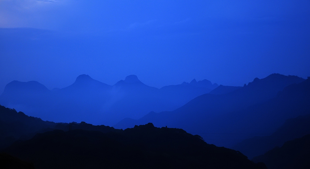 A late evening view of the Agasthyamalai Range as seen from Upper Kodayar